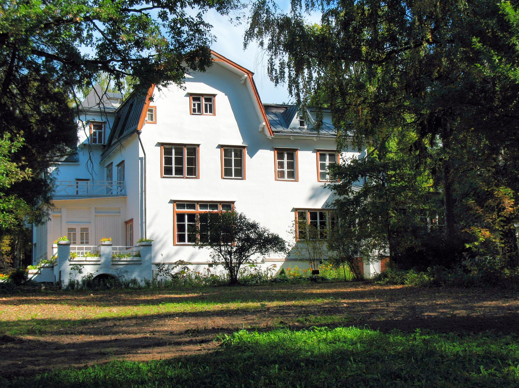 Polenovo, house-museum Polenov Vasily Dmitrievich